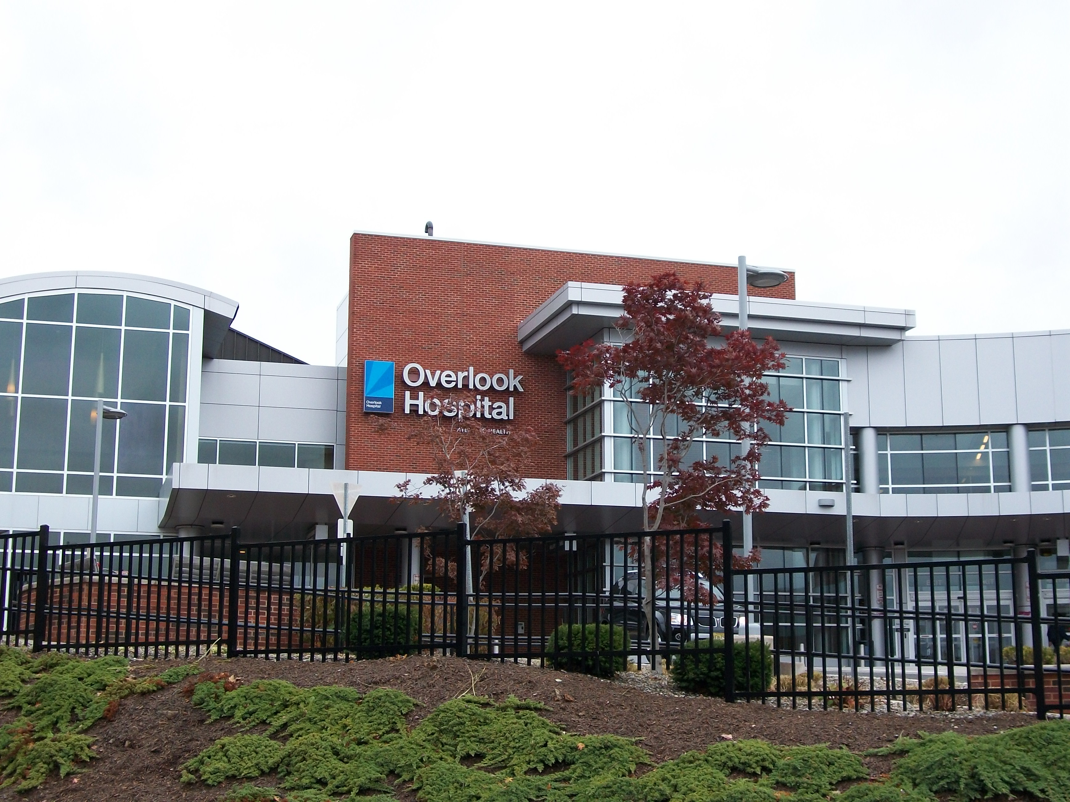 The front entrance to Overlook Hospital in Summit, New Jersey, in October, 2009.